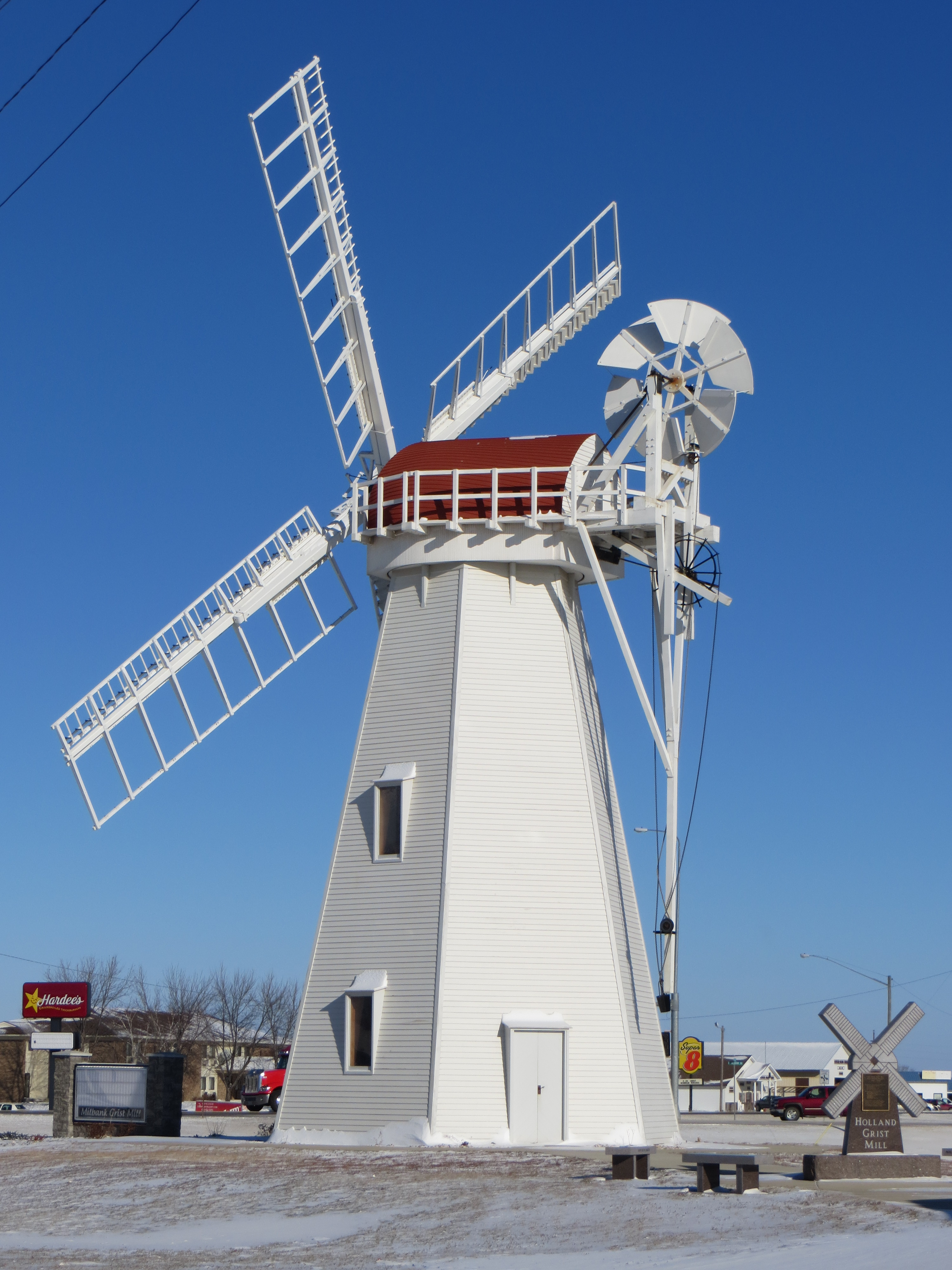 Hollands Grist Mill, U.S. Route 12, Milbank, South Dakota